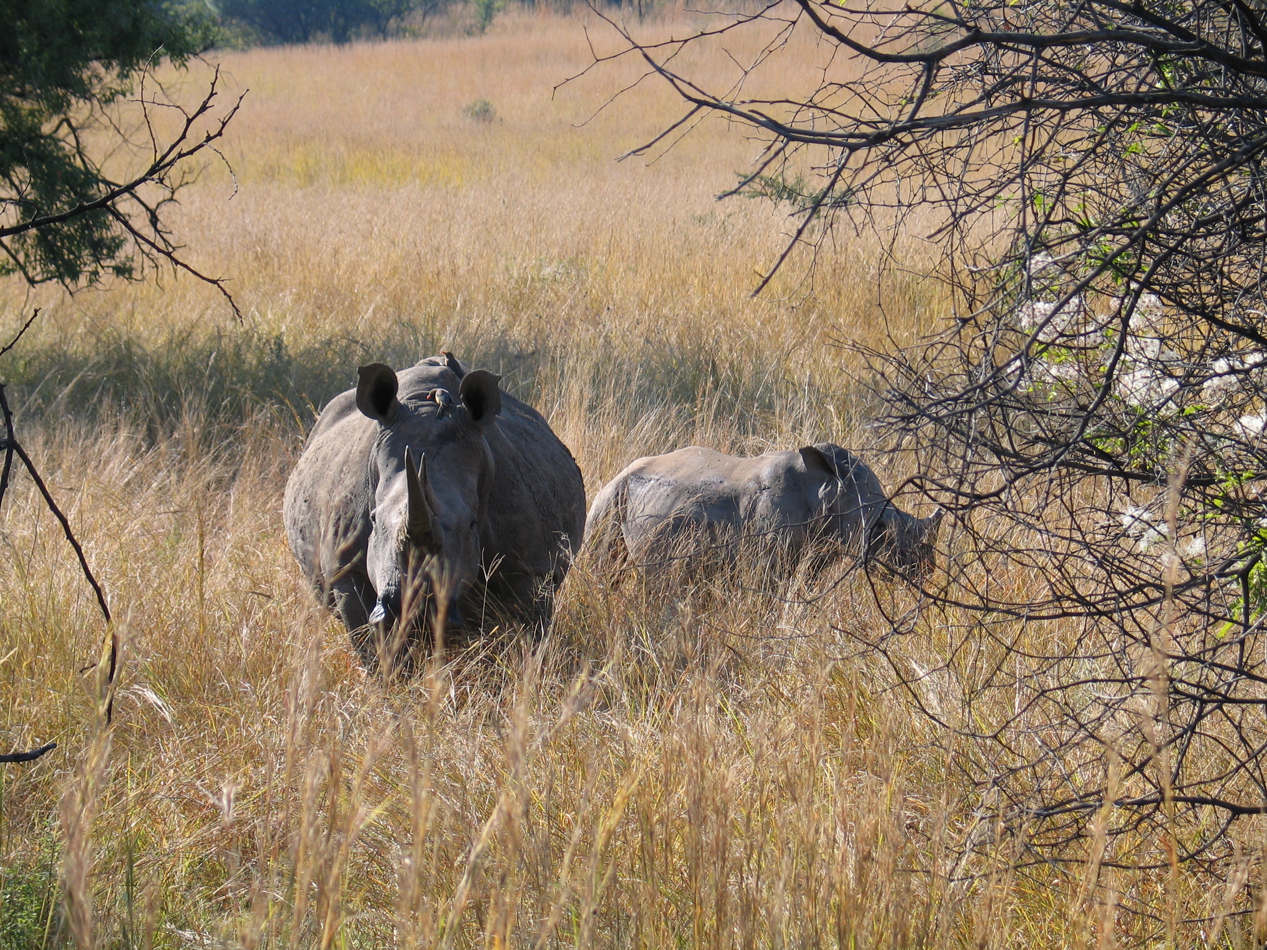 White Rhino female with a young at Pilanesberg National Park, South Africa Included species: C. simum, B. erythrorynchus, H. hirta & C. dactylon, C. brachiata